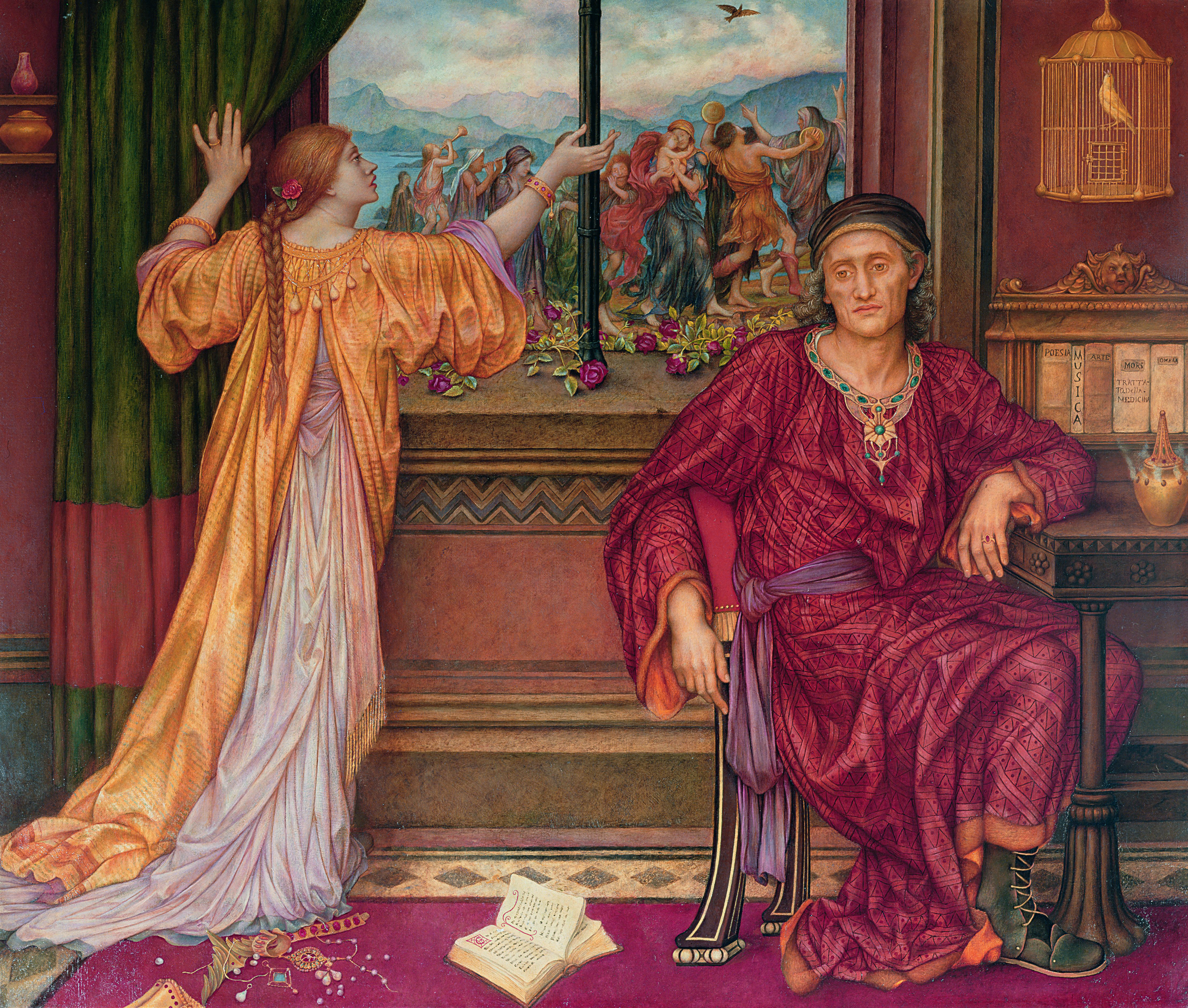 The Gilded Cage oil on canvas 1900-1919